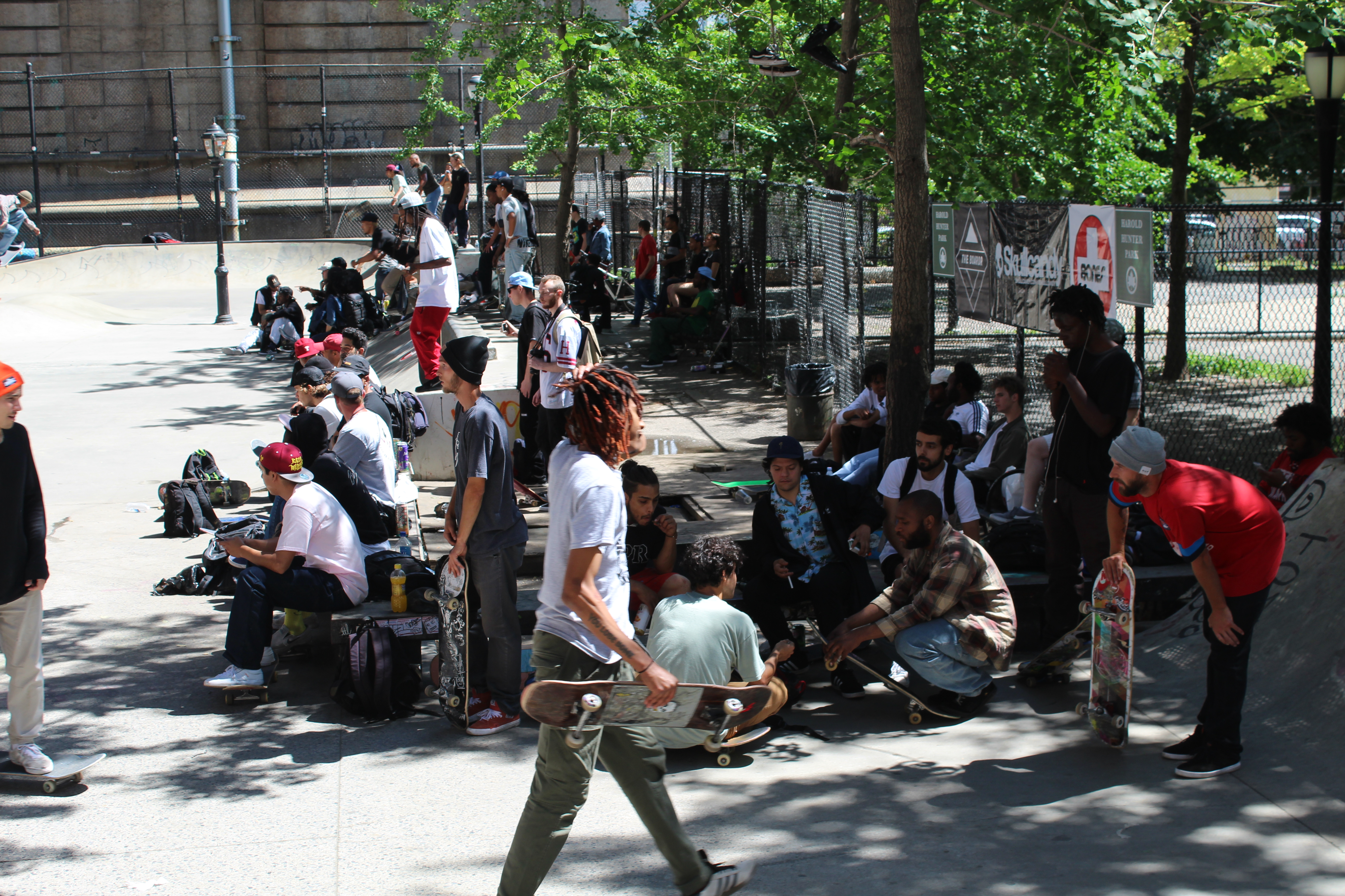 A group of street skateboarders watch competition at Harold Hunter Park in New York City